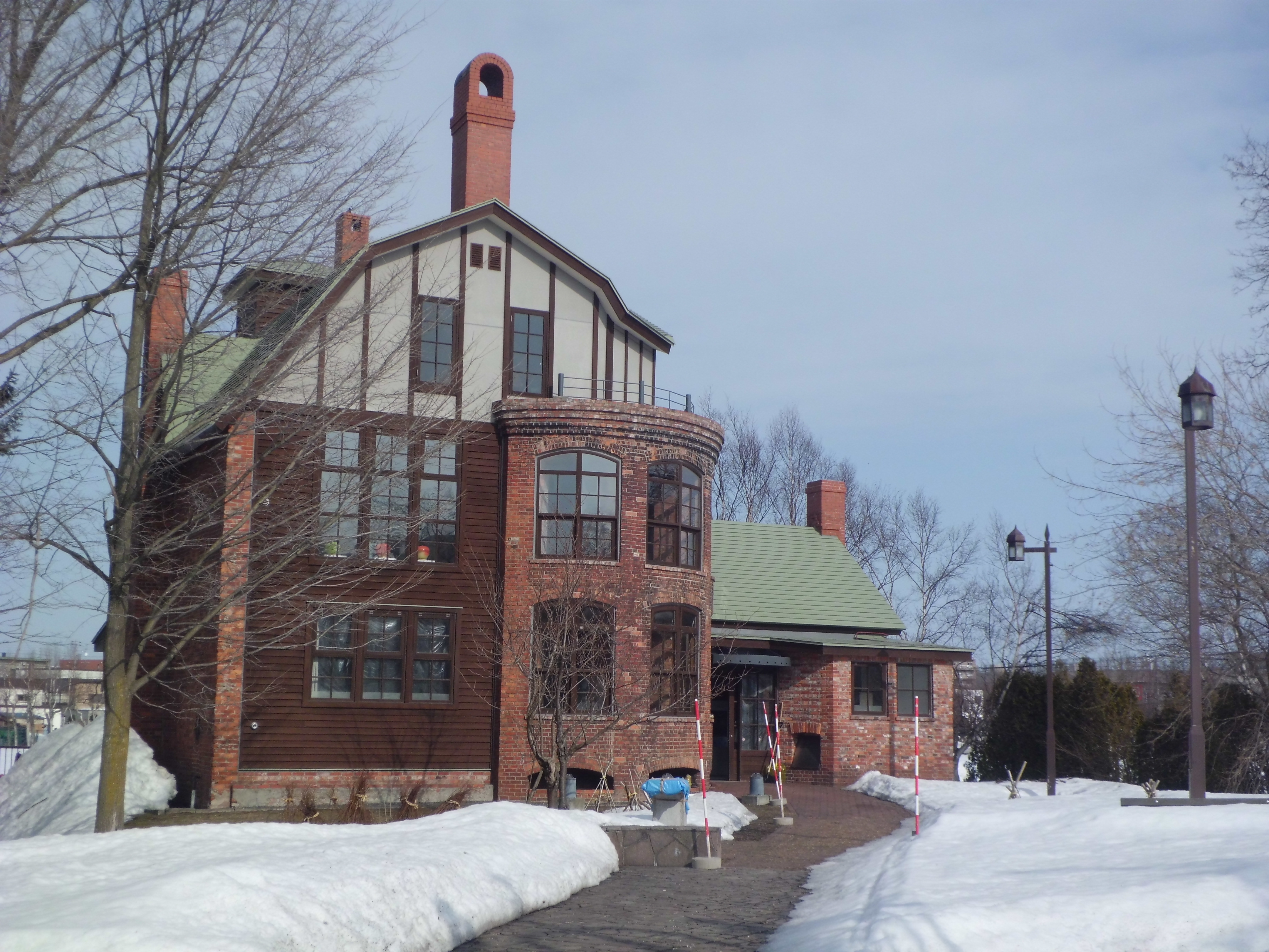 Ebetsu City Glass Crafts Museum